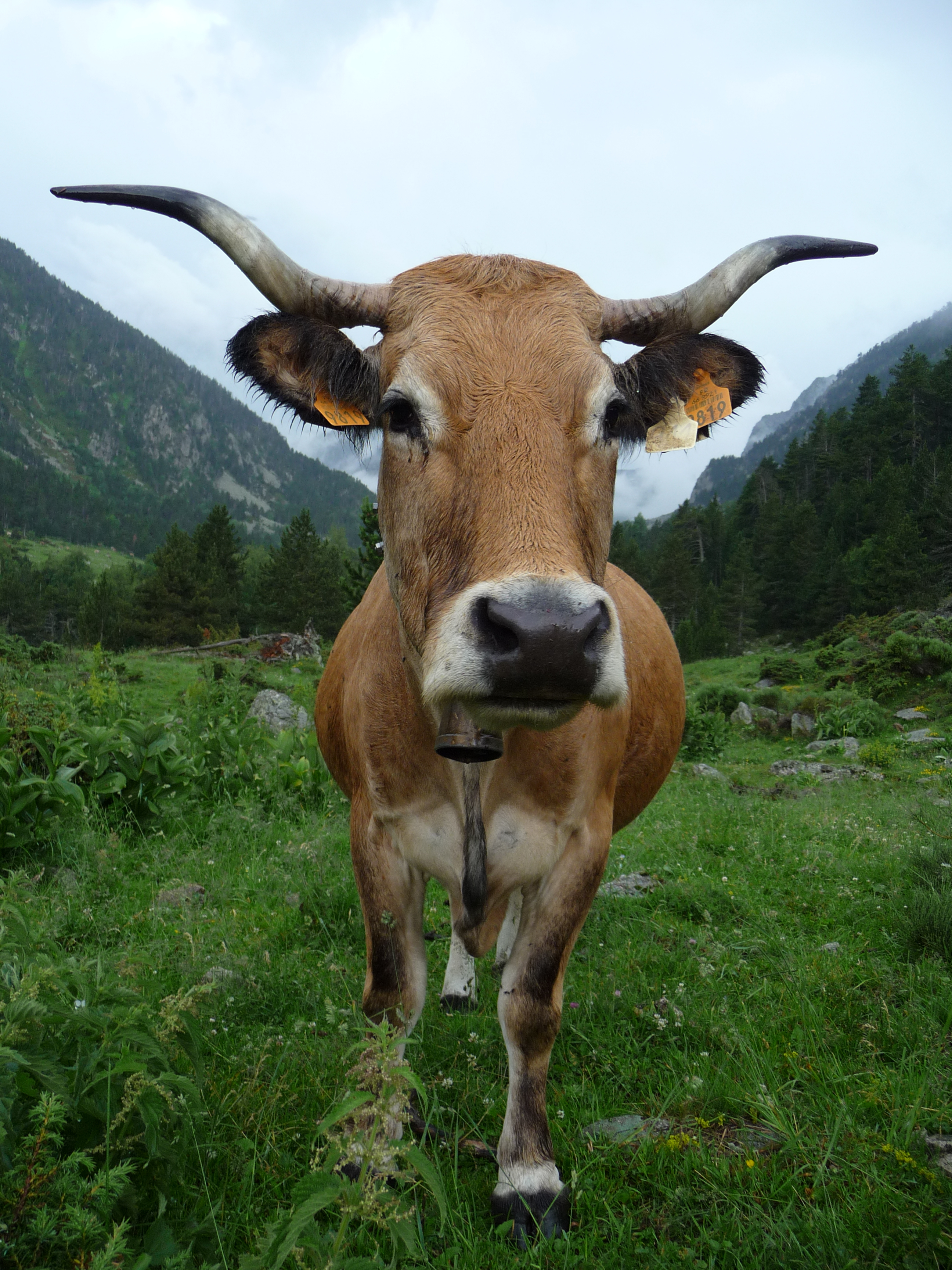 Pyrenean Aubrac cow